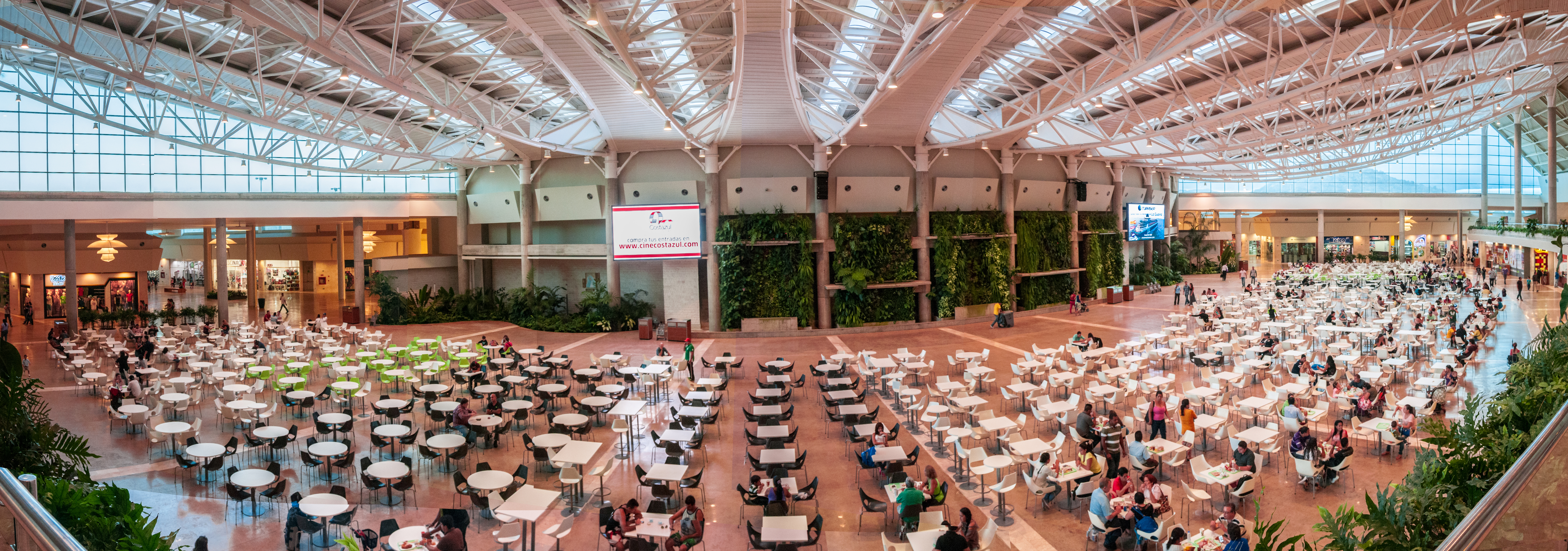 Panoramic of Costa Azul mall